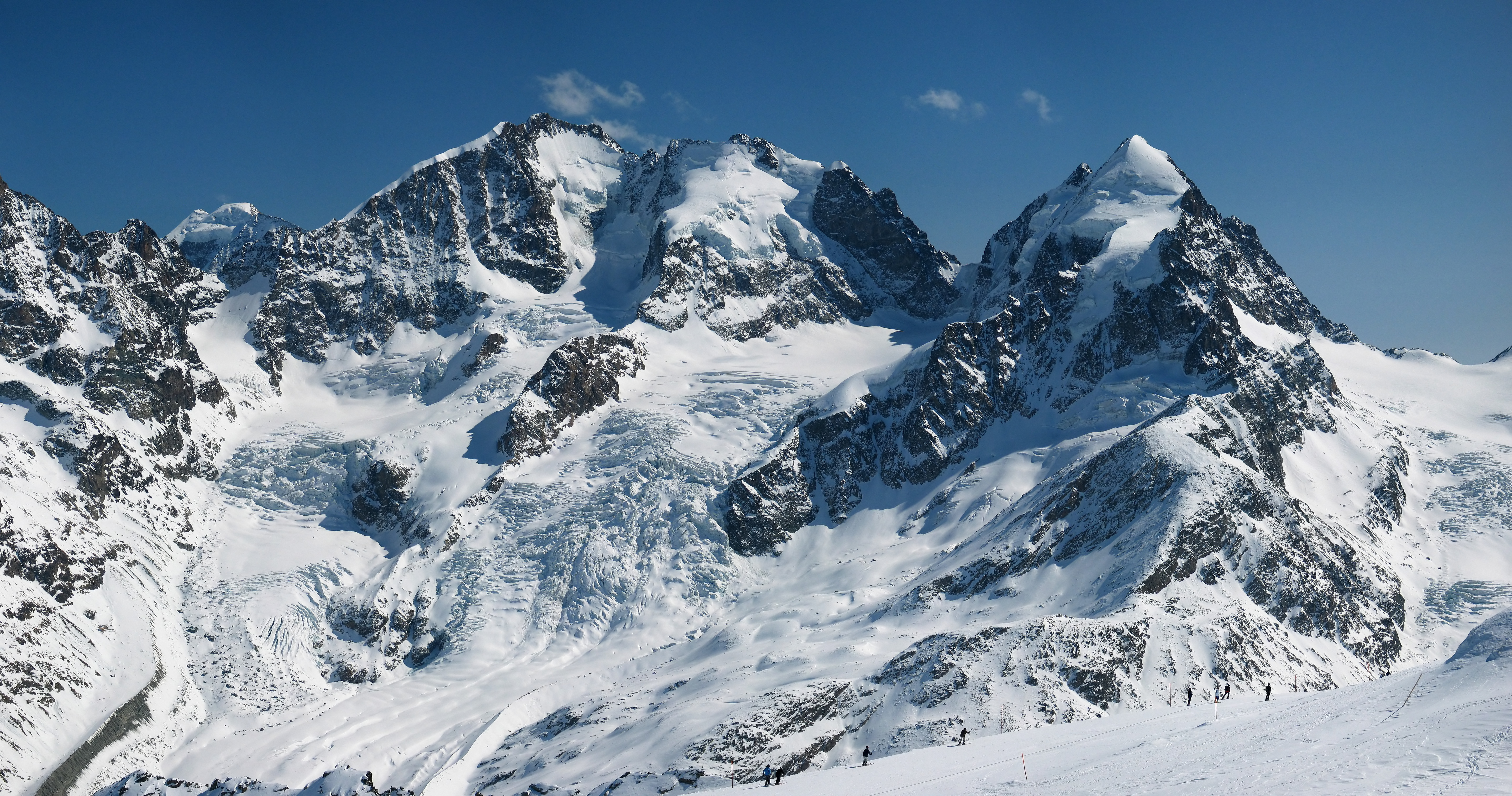 Tschierva Glacier (Romansh: Vadret da Tschierva) as seen from Piz Corvatsch. The high peak dominating the center left of the image is Piz Bernina decorated with the Biancograt a distinct ice ridge. Piz Bernina is the only mountain exceeding 4000m in Engadin. The peak on the right is Piz Roseg. The Tschierva hut is visible above the left glacier moraine. The image is stitched from more than 20 individual images taken with a Canon Powershot G3.